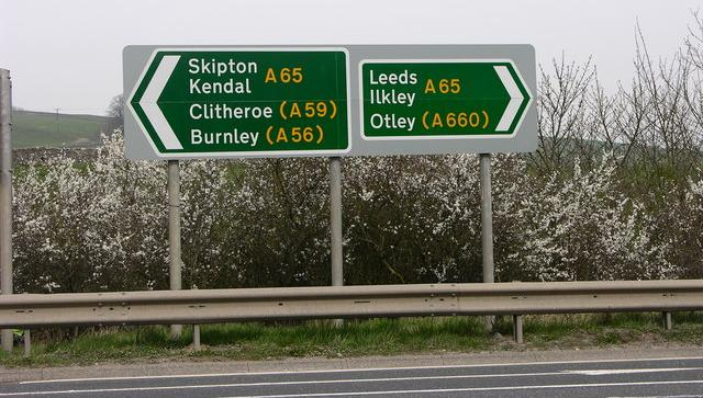 Roadsign A65